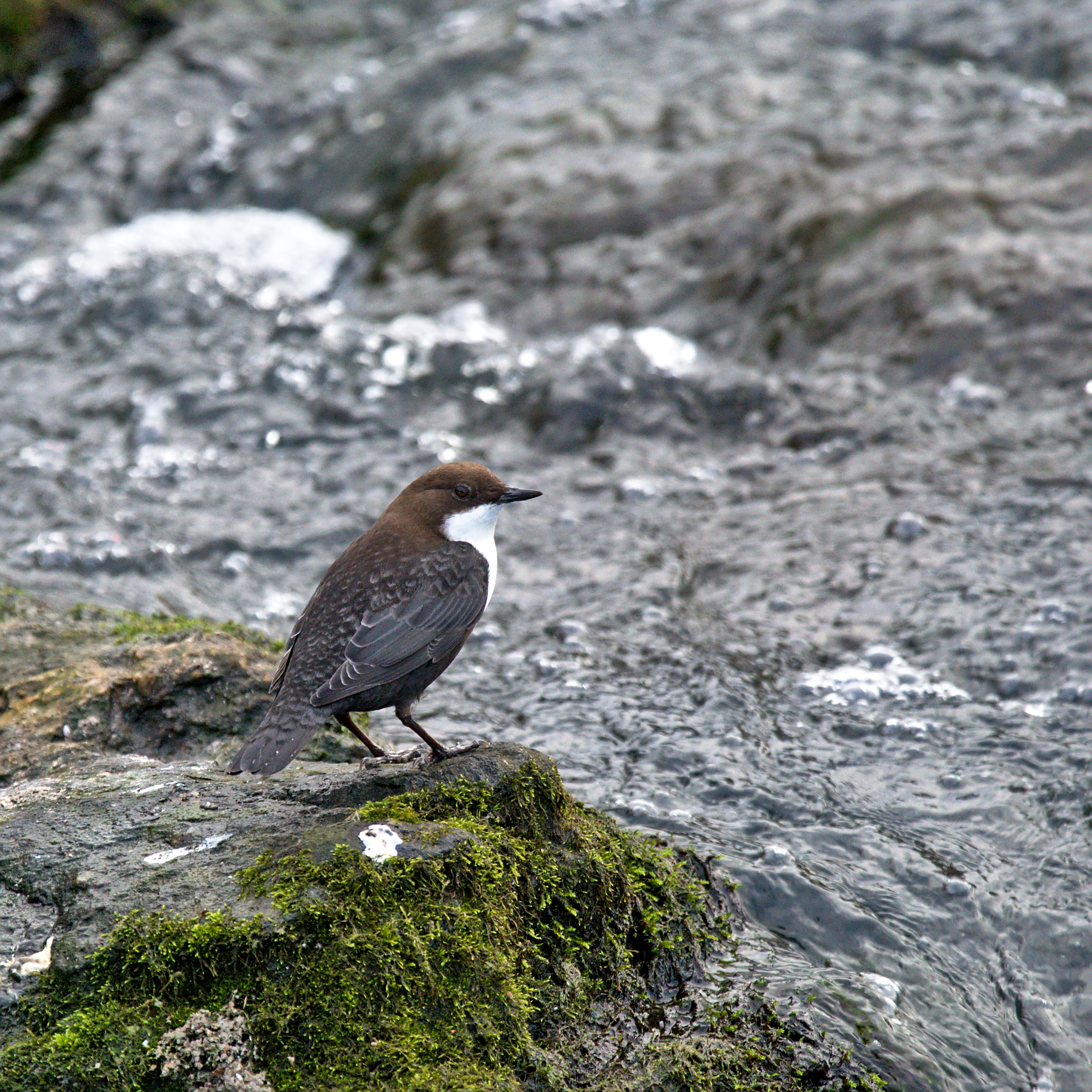 Cinclus cinclus